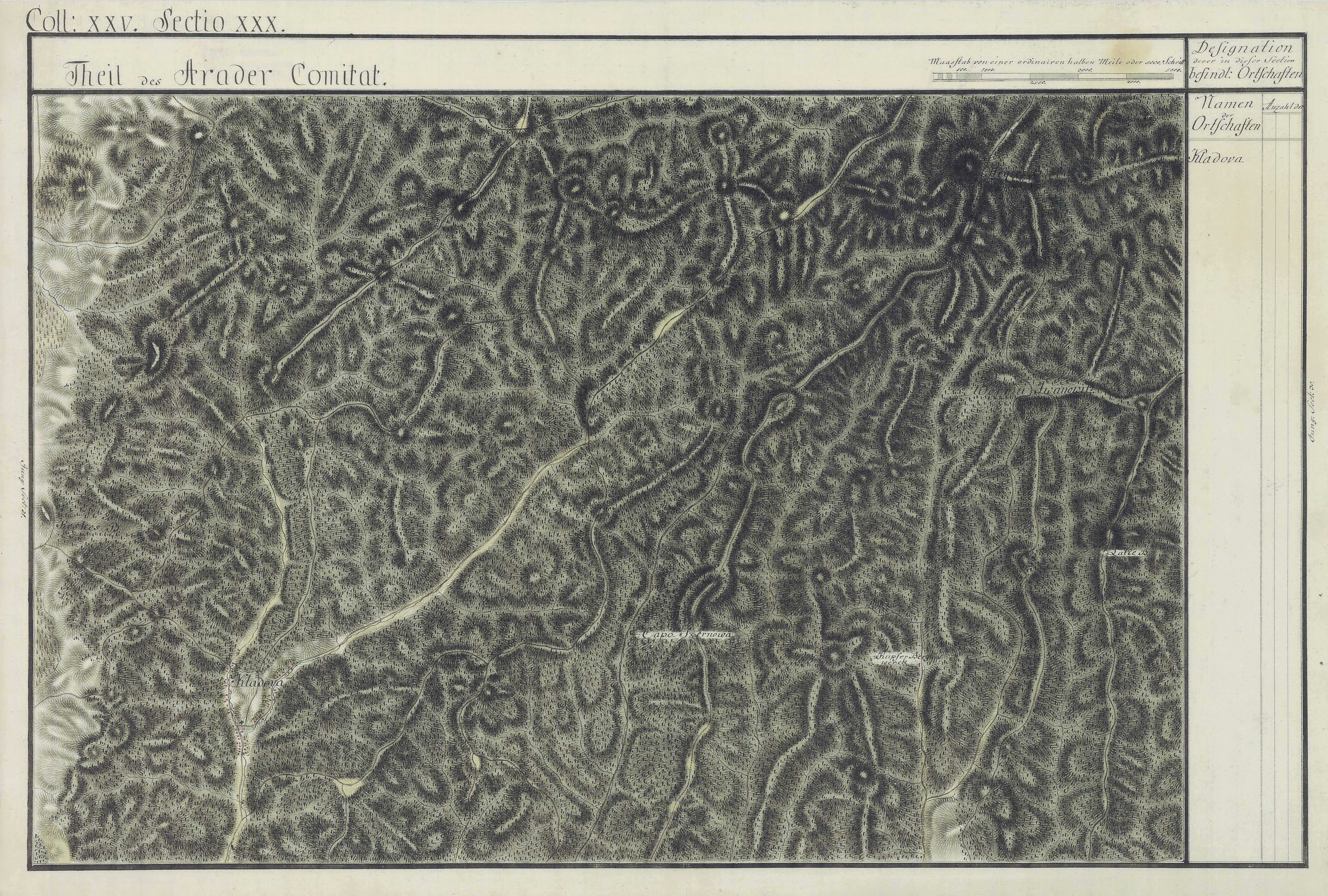 Arad County, 1782-85. Josephinische Landesaufnahme pg.25-30